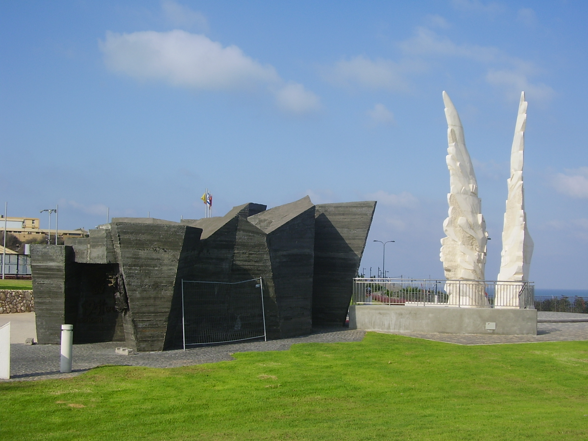 victory monument in netanya, israel אנדרטת הנצחון בנתניה